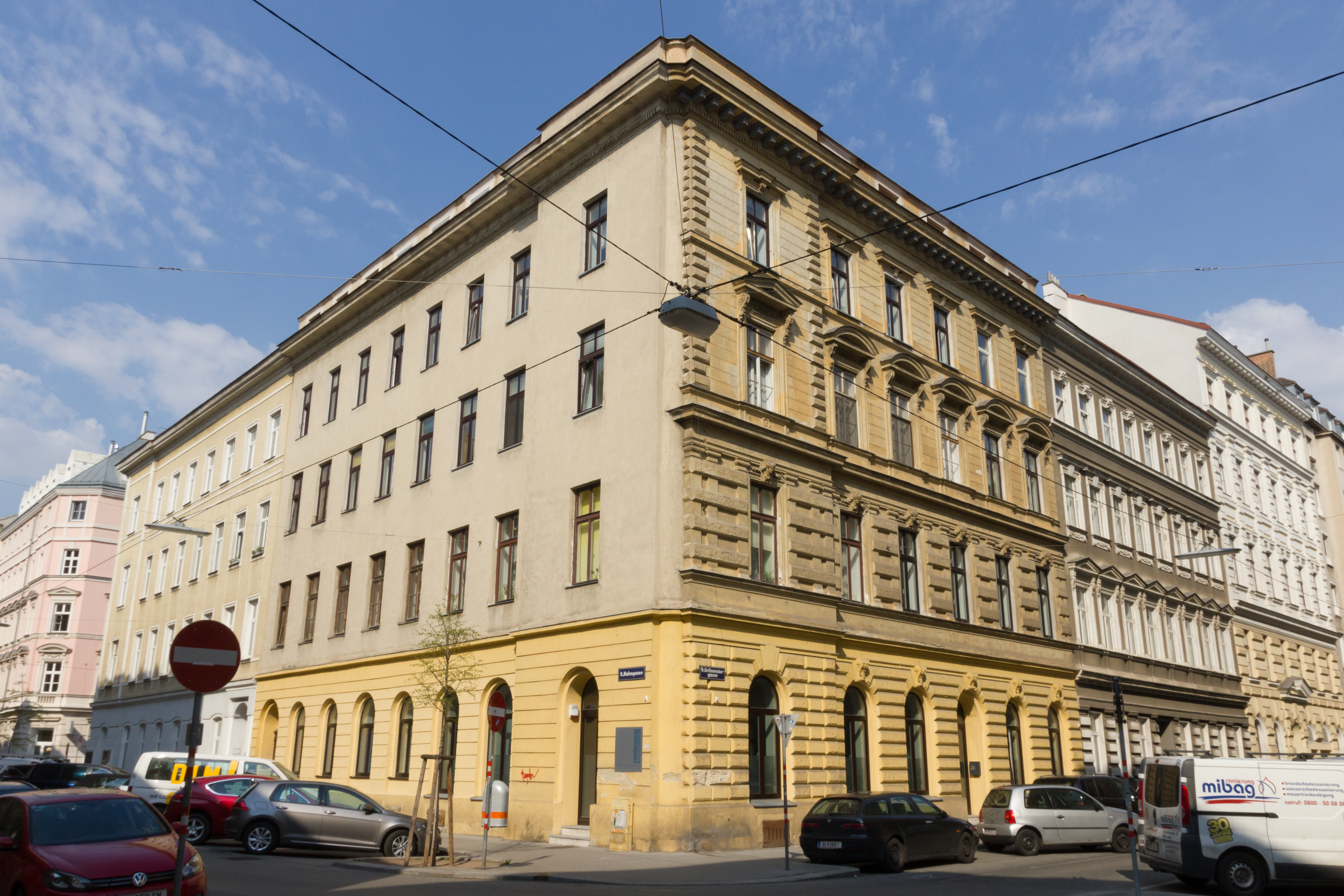 The building Grünentorgasse 27, Hahngasse 16 shows the consequences of the so-called Entstuckung at its side towards Grünentorgasse.